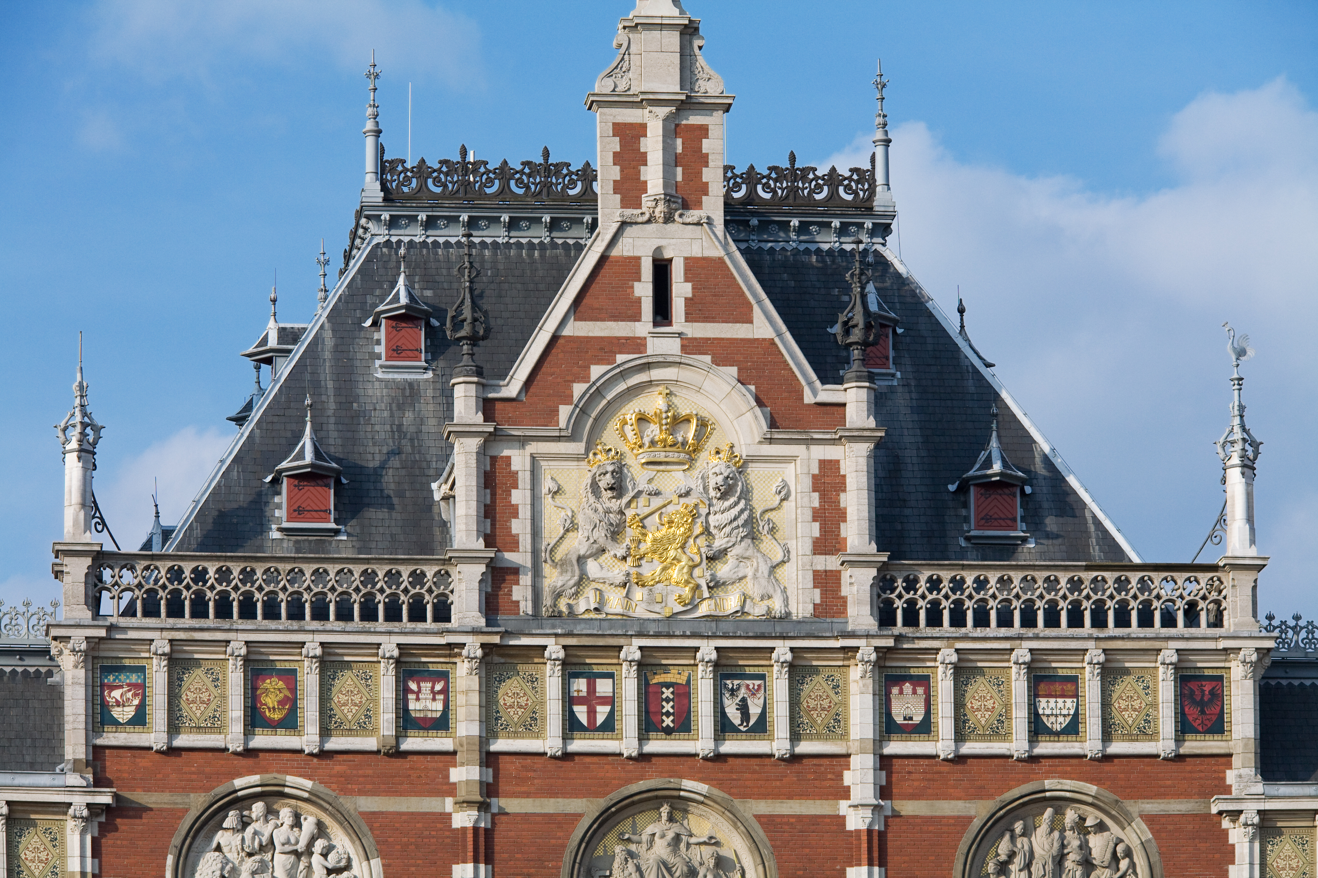 Amsterdam Centraal Railway Station rooftop, The Netherlands